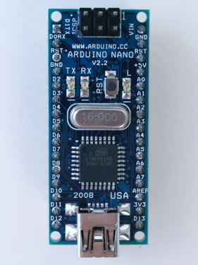 ArduinoNanoTop